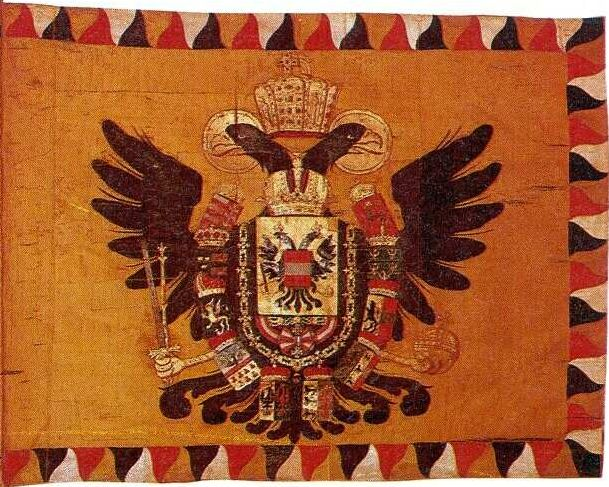 Austrian flag from the early 19. century